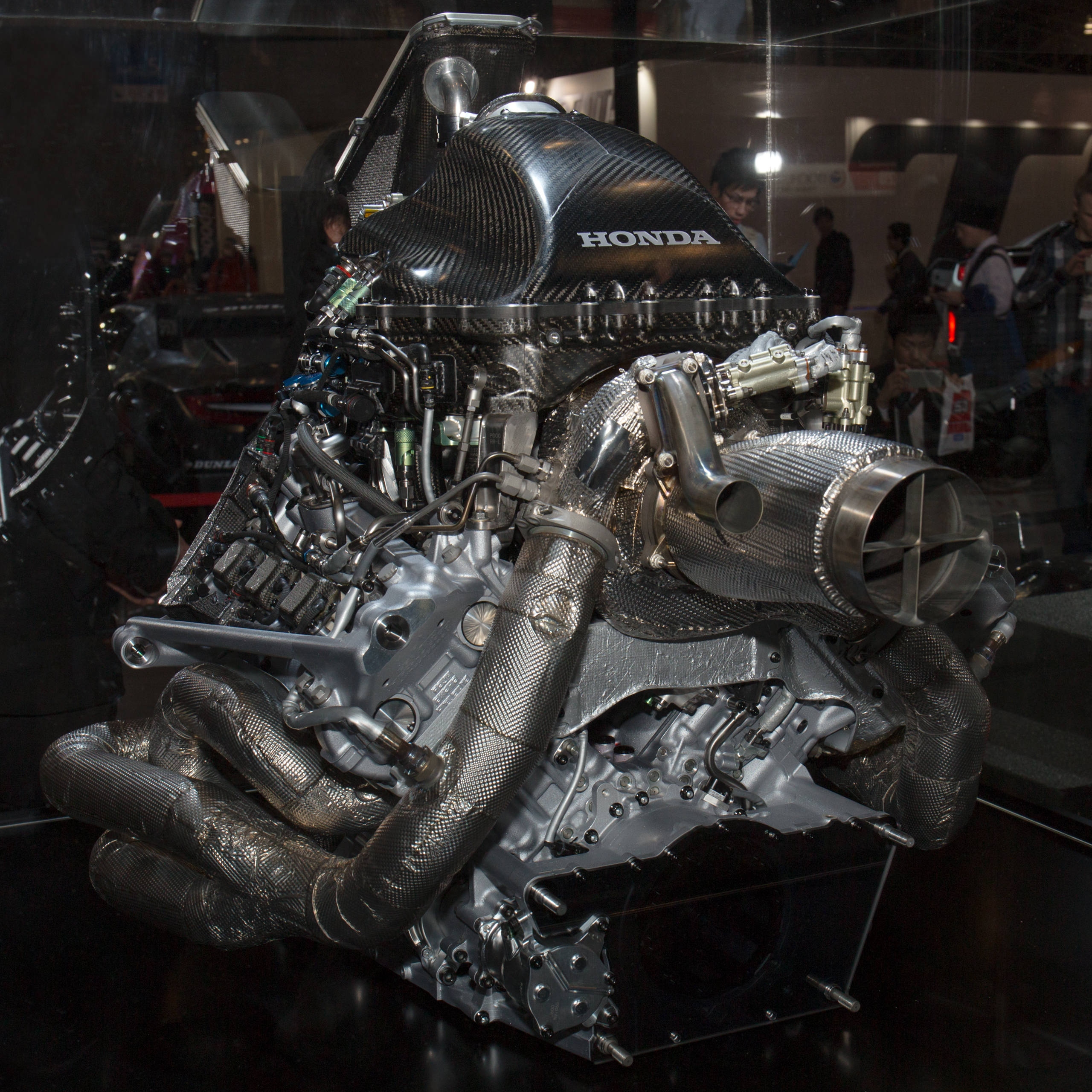 Tokyo Auto Salon 2017: Honda RA616H engine